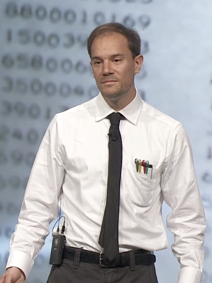 Bret Victor delivering "The Future of Programming" talk at Dropbox's DBX conference on July 9, 2013